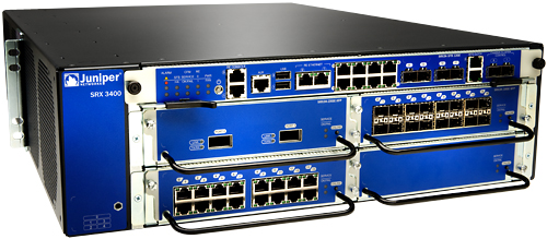 Juniper Networks SRX3400 service gateway and security appliance